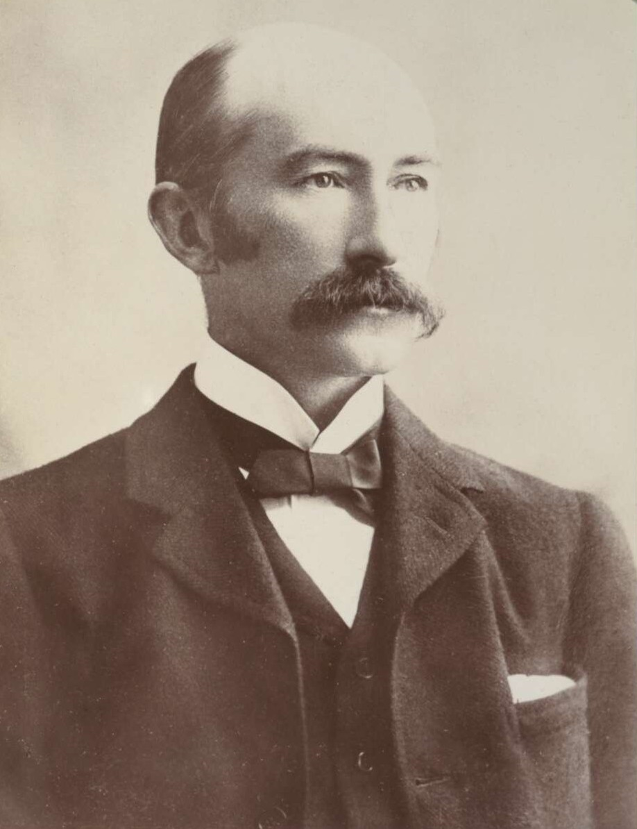 Henry Bournes Higgins From the 1898 Australasian Federal Convention Album.